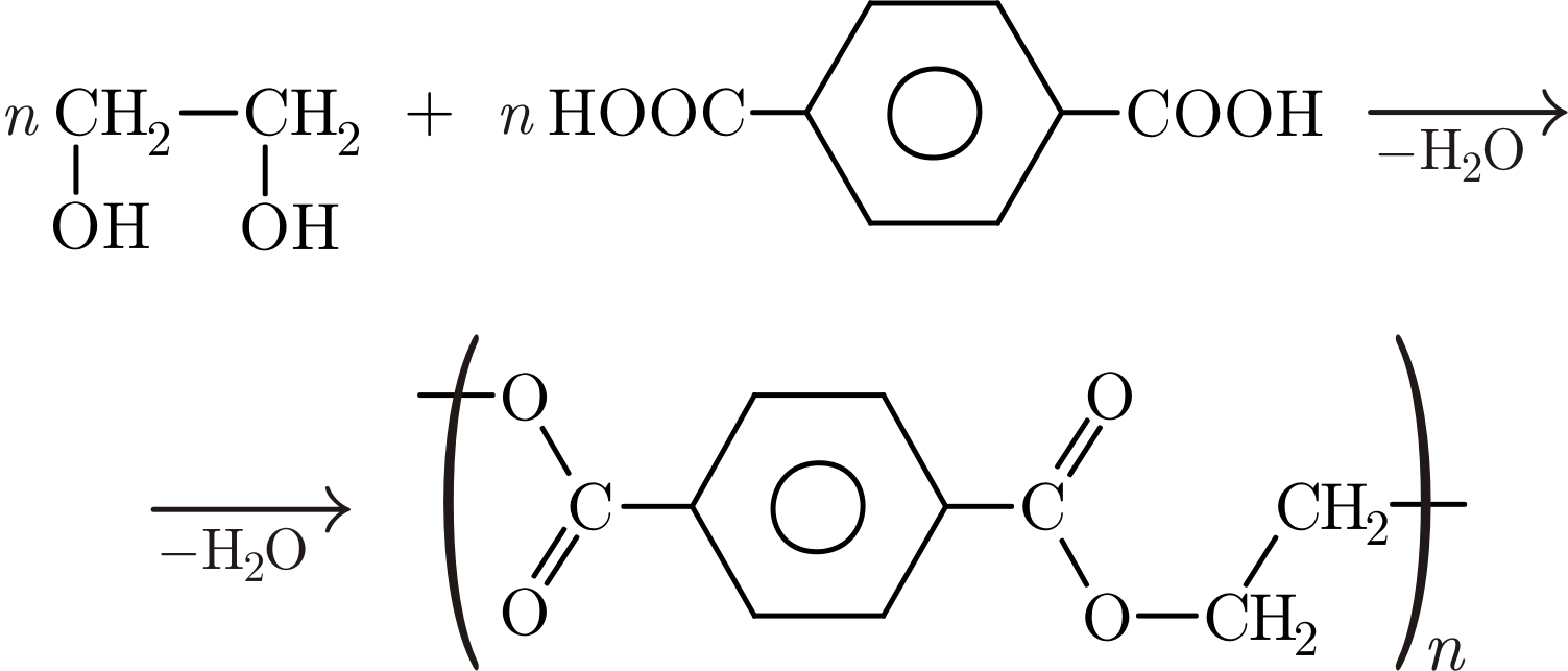 Polyethylene terephthalate, PET, synthese